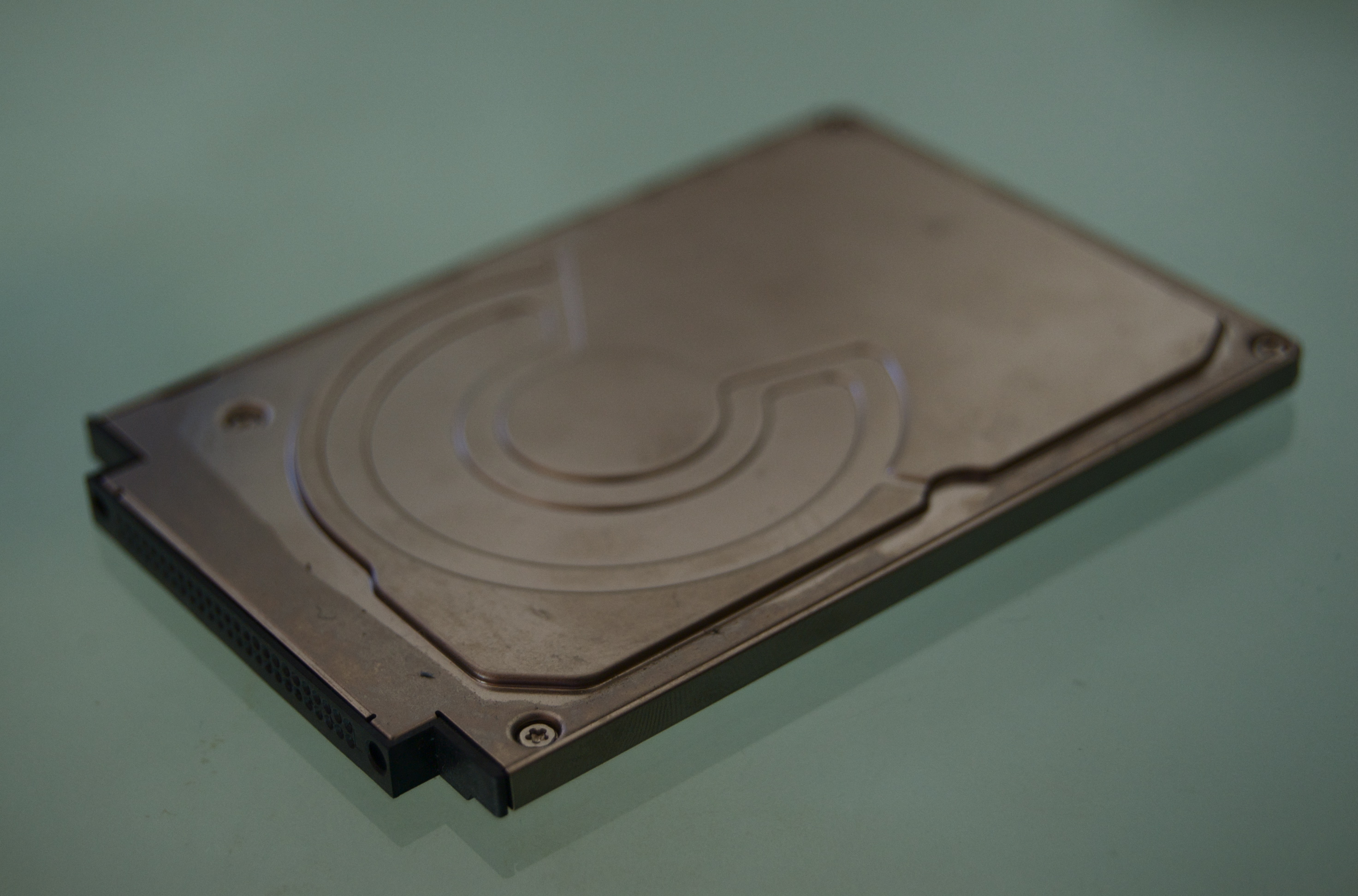 iPod 30GB Hard Drive